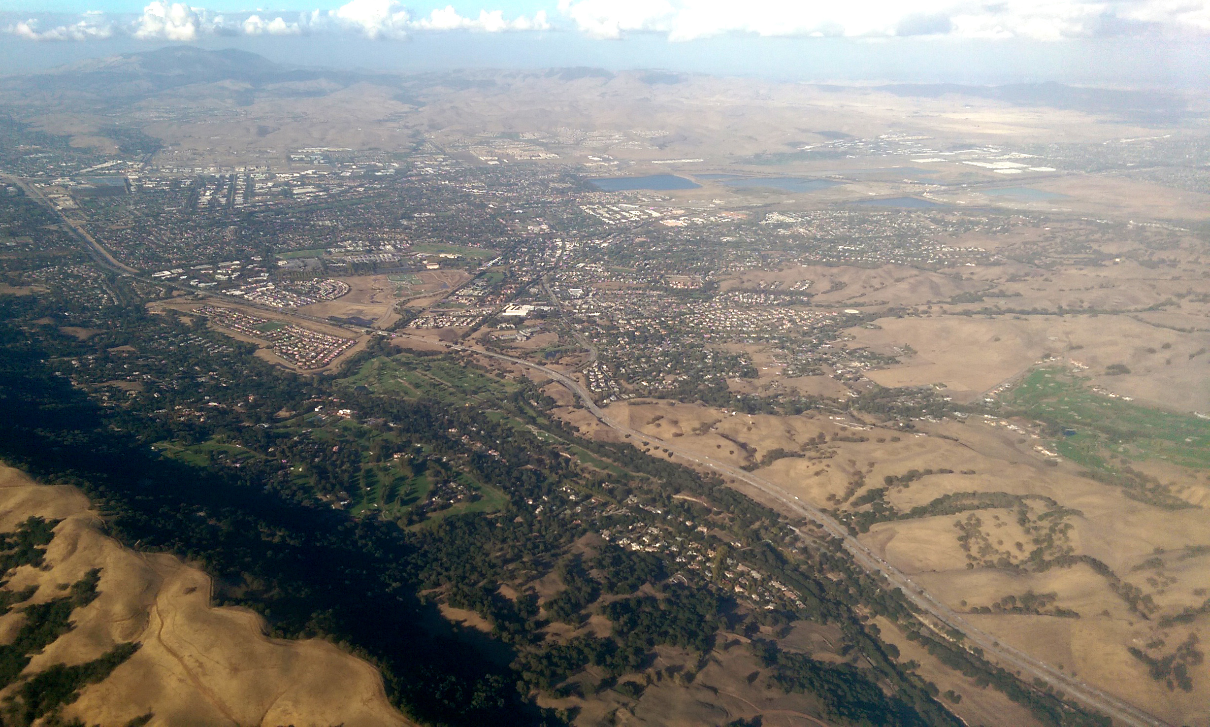 Pleasanton, California